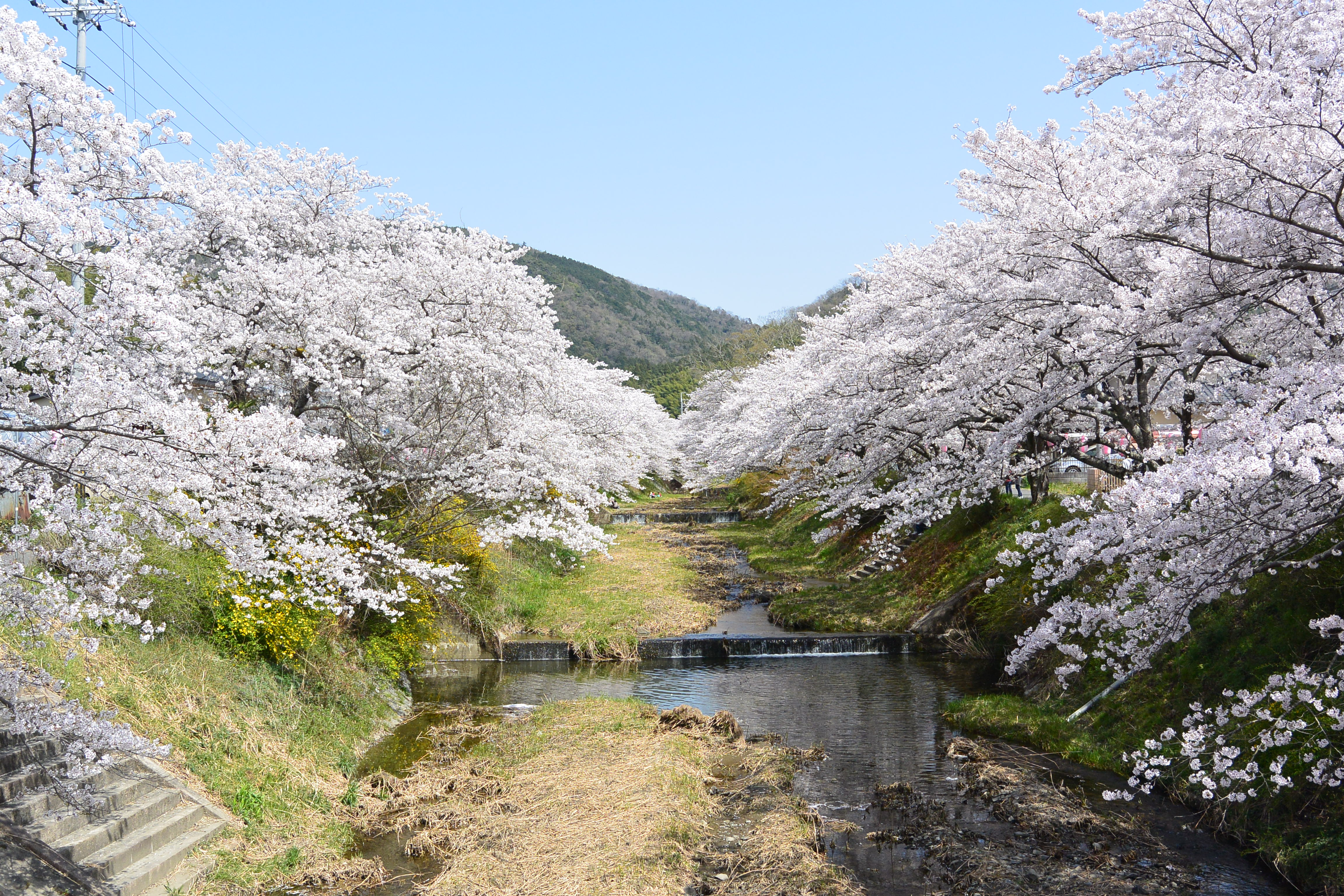 Cherry blossom at Tama river Idetyo,kyoto pfef,Japan